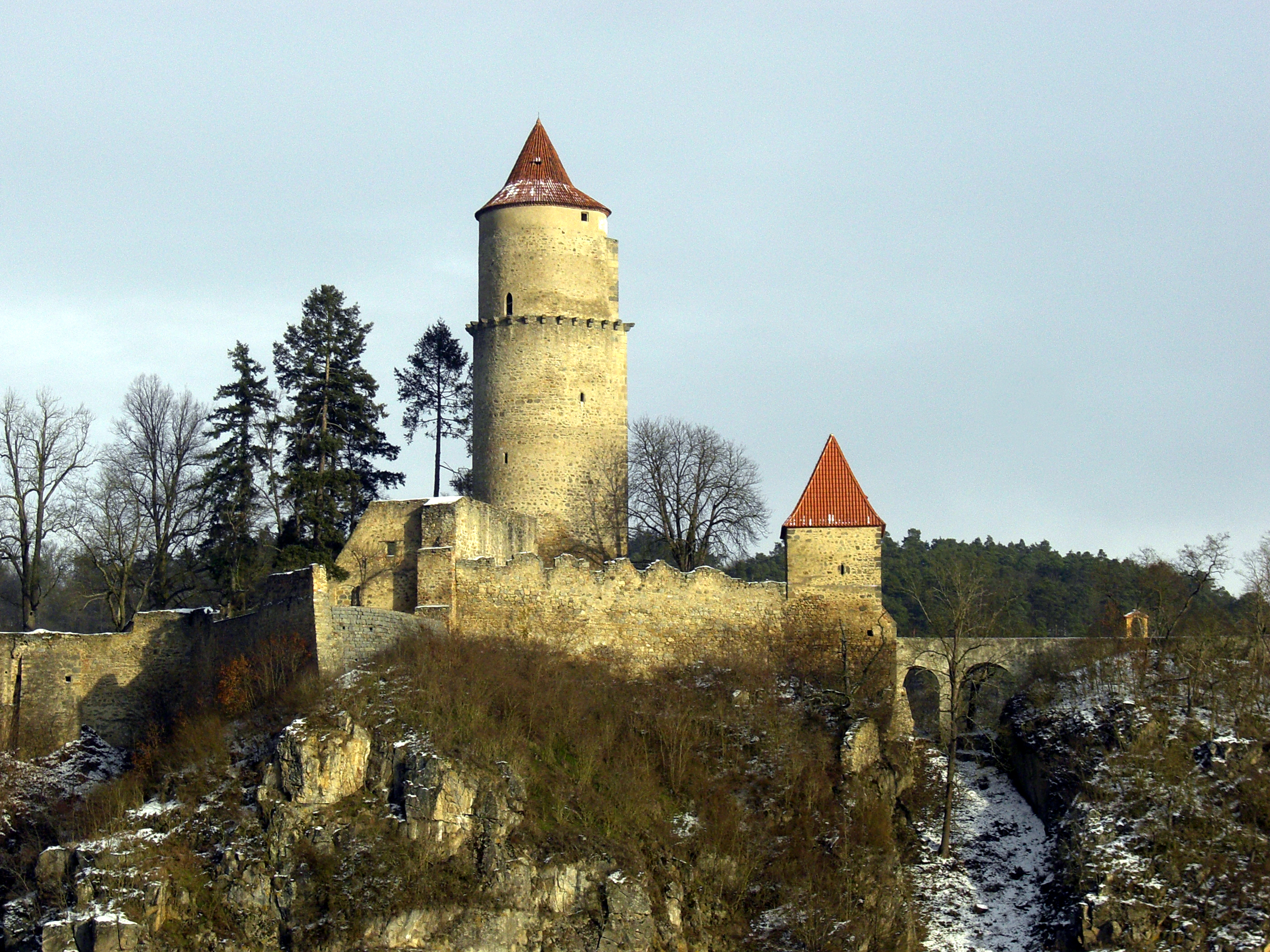 Zvíkov castle in Písek District, Czech Republic